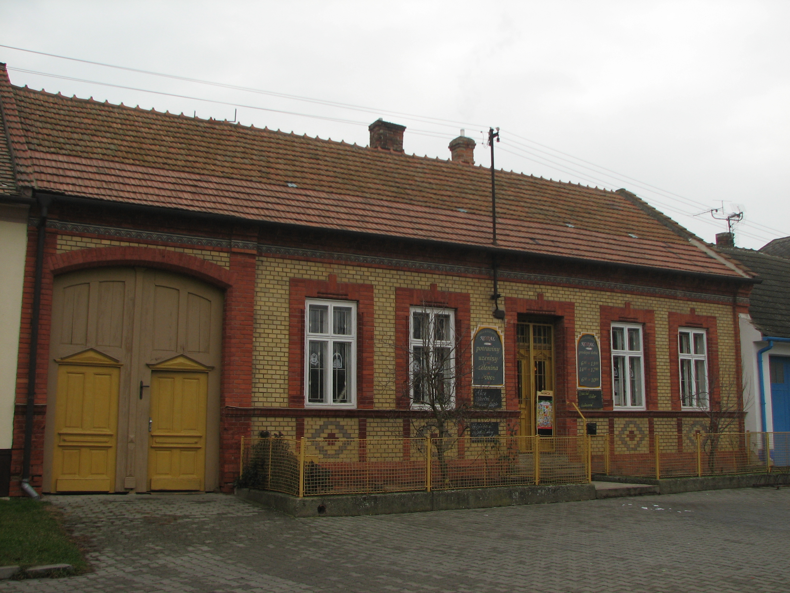 Mikulčice - a shop